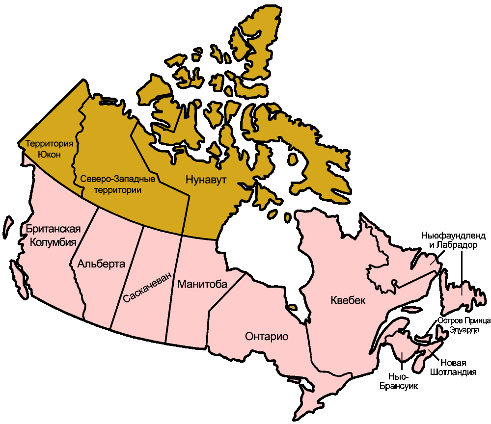 Map of the provinces of Canada in Russian. The English original made by User:Golbez.